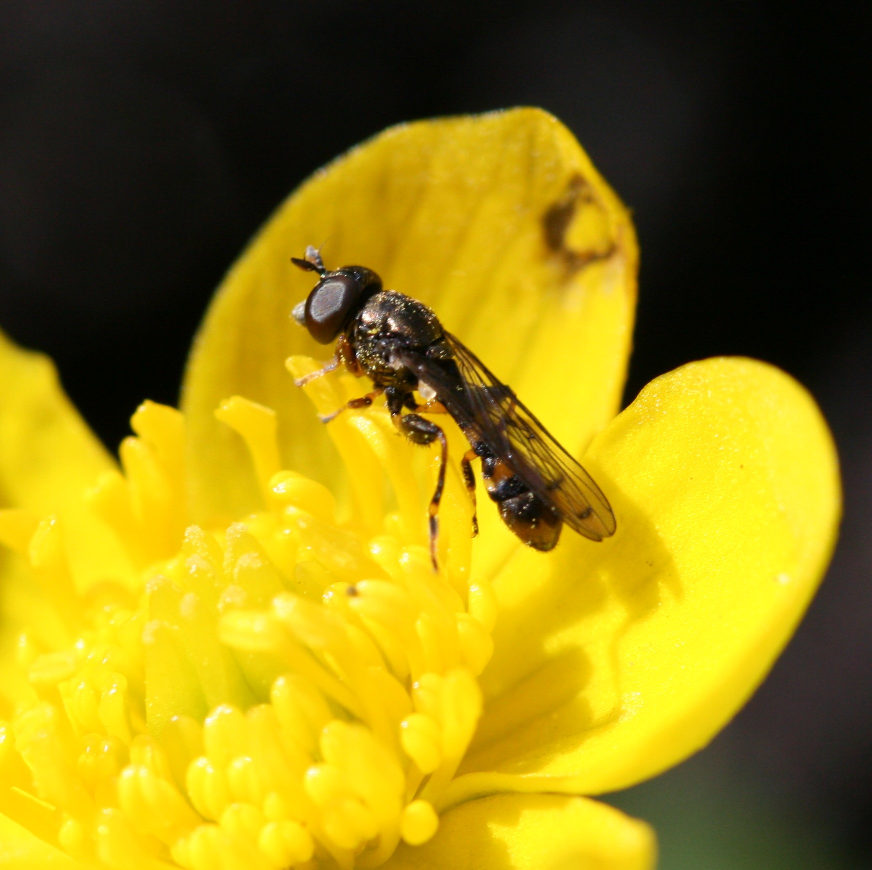 Neoascia podagrica (female) - a tiny hoverfly species